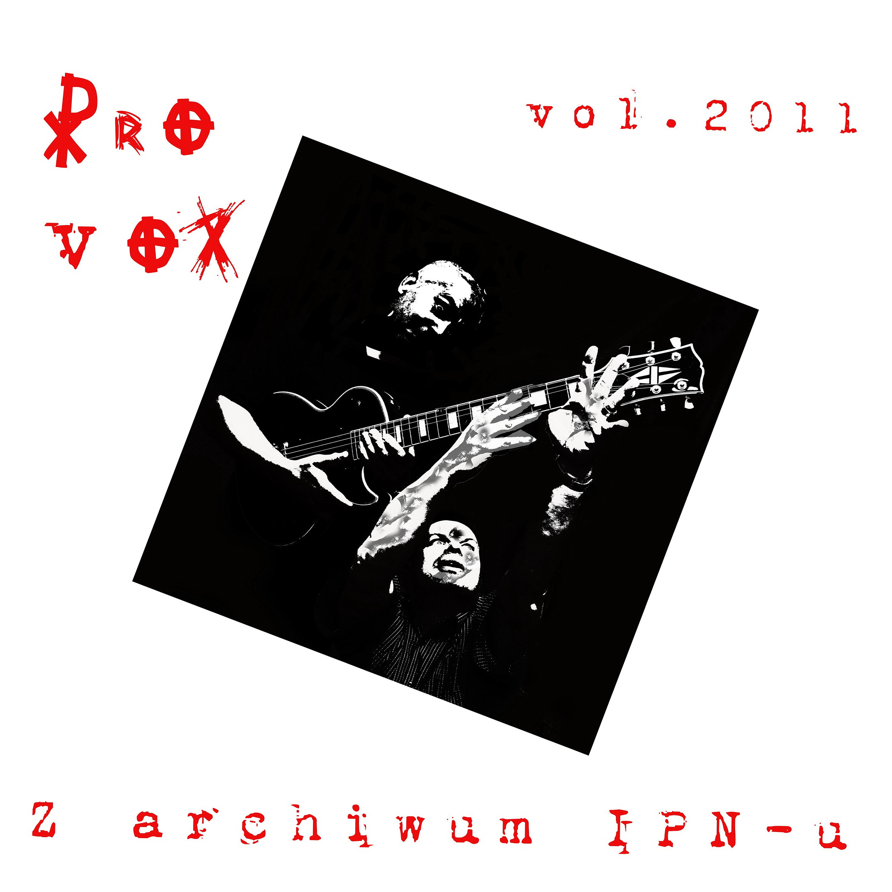 Cover art and logo (my project)